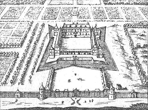 Vignette from the 1652 Paris map by Gomboust, showing the Château de Versailles as constructed c. 1630–1640